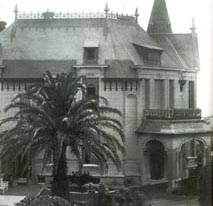 Old building of the Michael Ham Memorial College